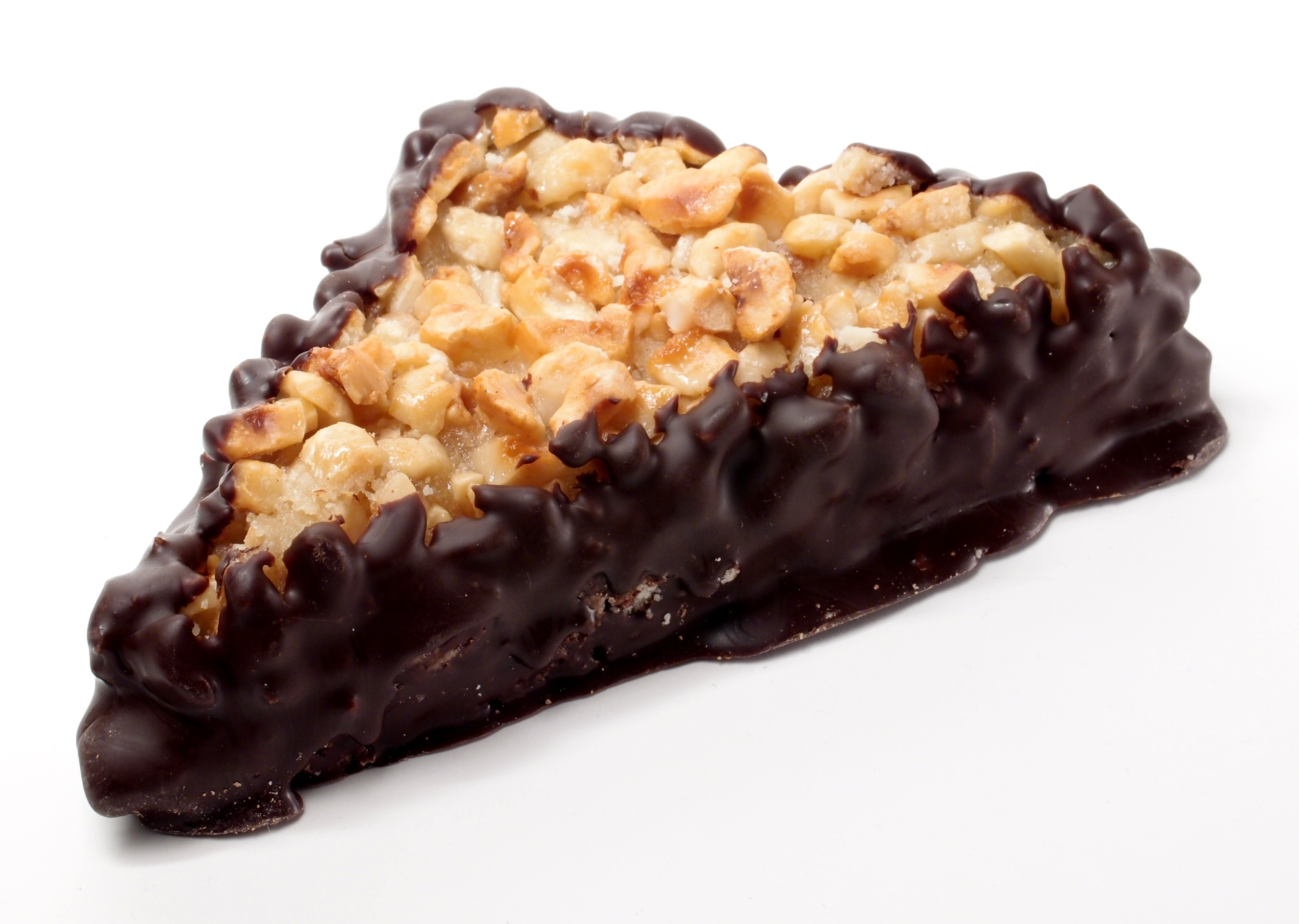 German “Nussecke” confection, whole. Visible is the caramelized hazelnut topping and a lining of couverture chocolate.